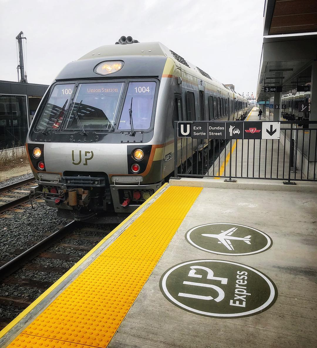 UP Express train departing Bloor GO Station toward Union